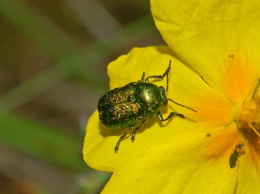 Cryptocephapus samniticus